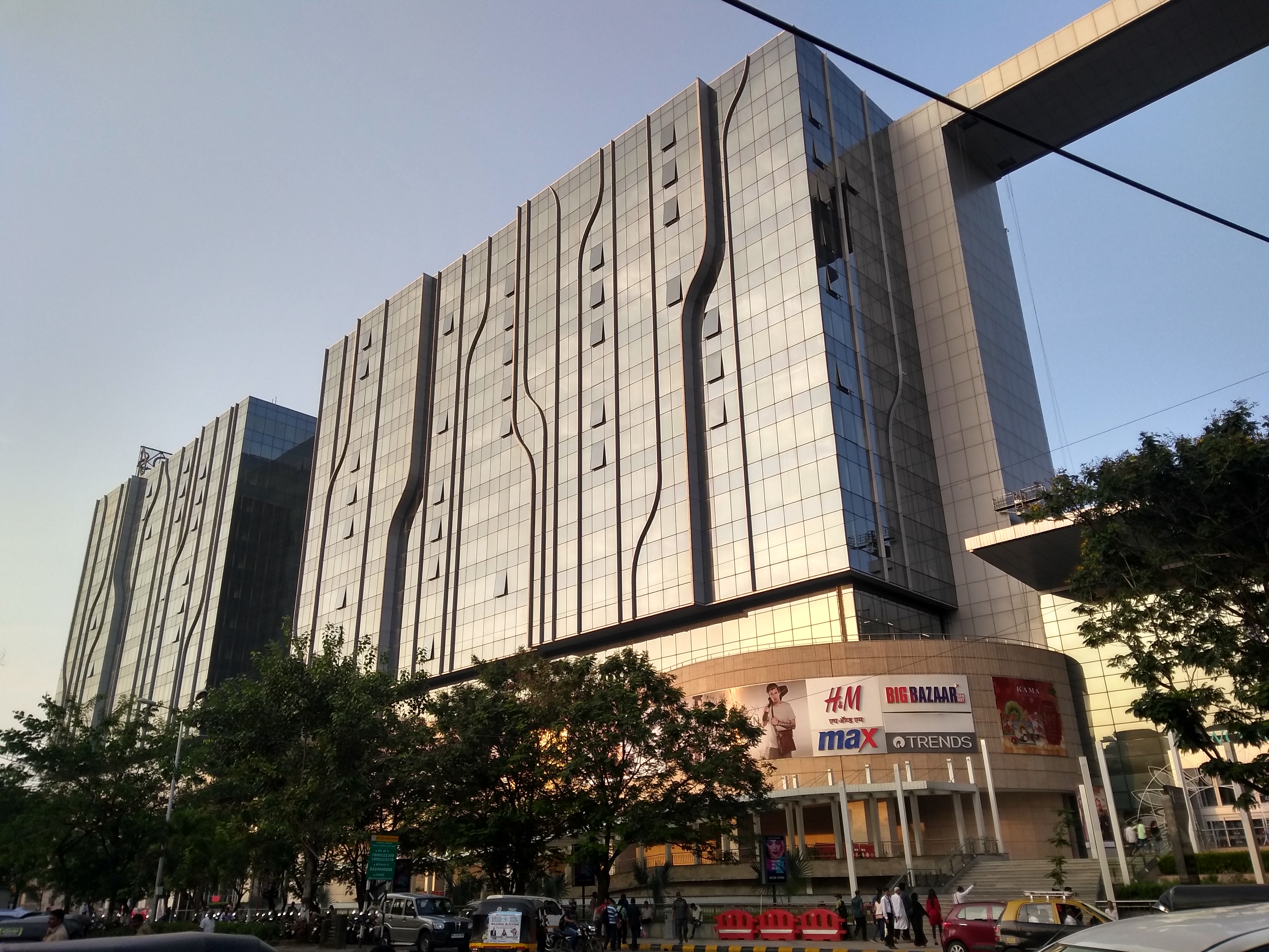 tower 1